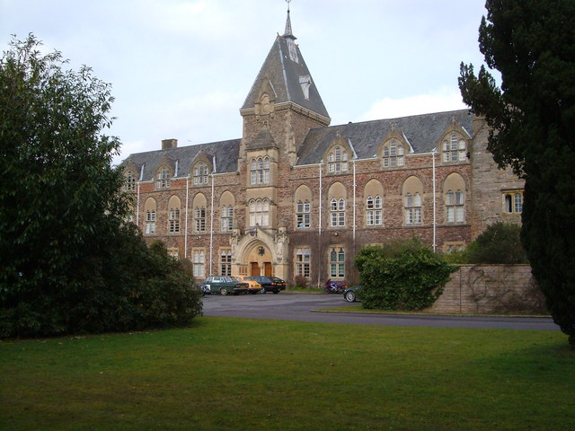 King's College, Taunton. This part of Taunton contains three sizeable academic institutions, and King's College's main building, mid-Victorian Gothic, is certainly the most impressive. Viewed from the SW.